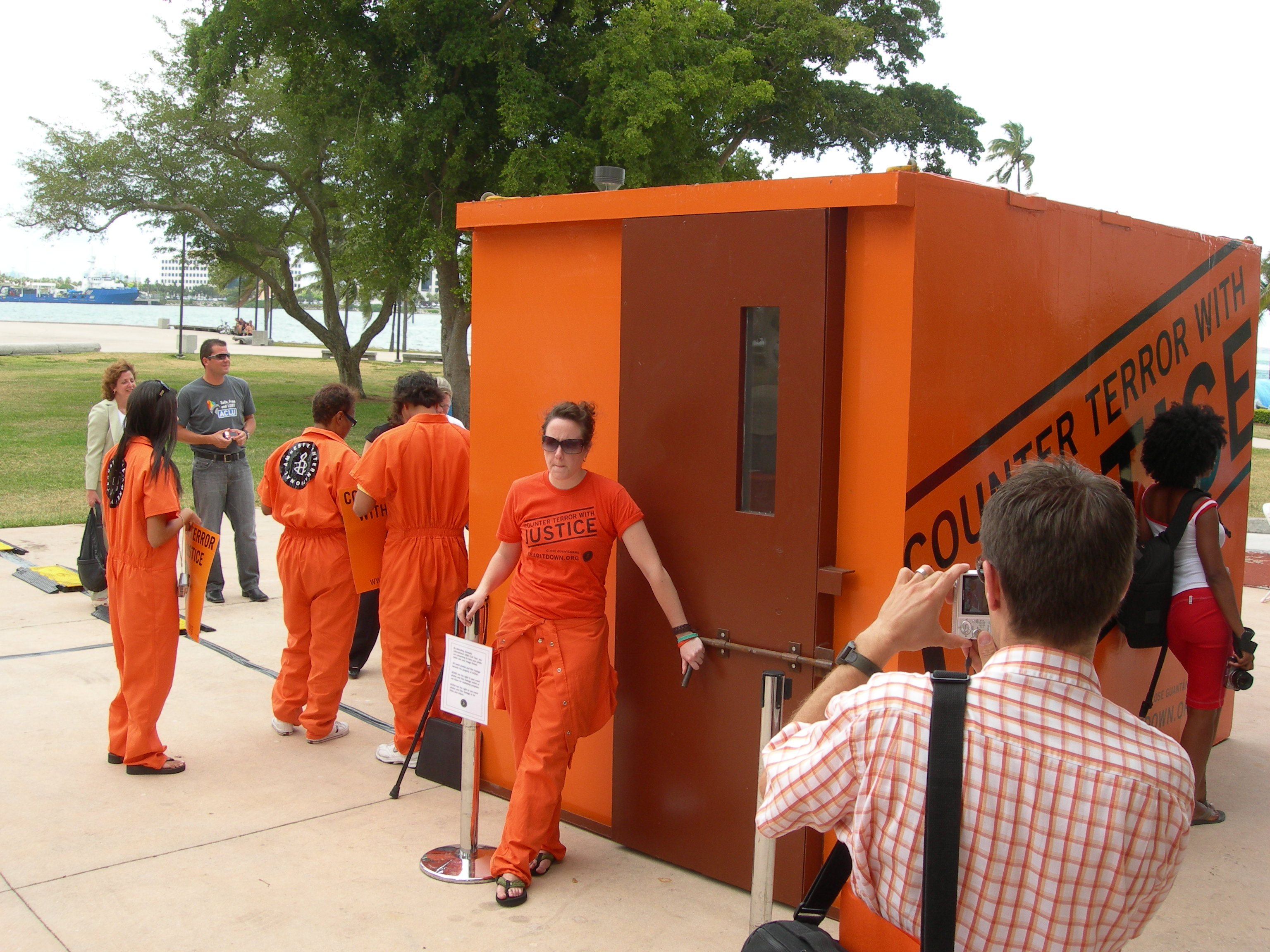 Mock Guantanamo Bay prisoner cell used in Amnesty International protest; taken in Miami, Florida in May, 2008.